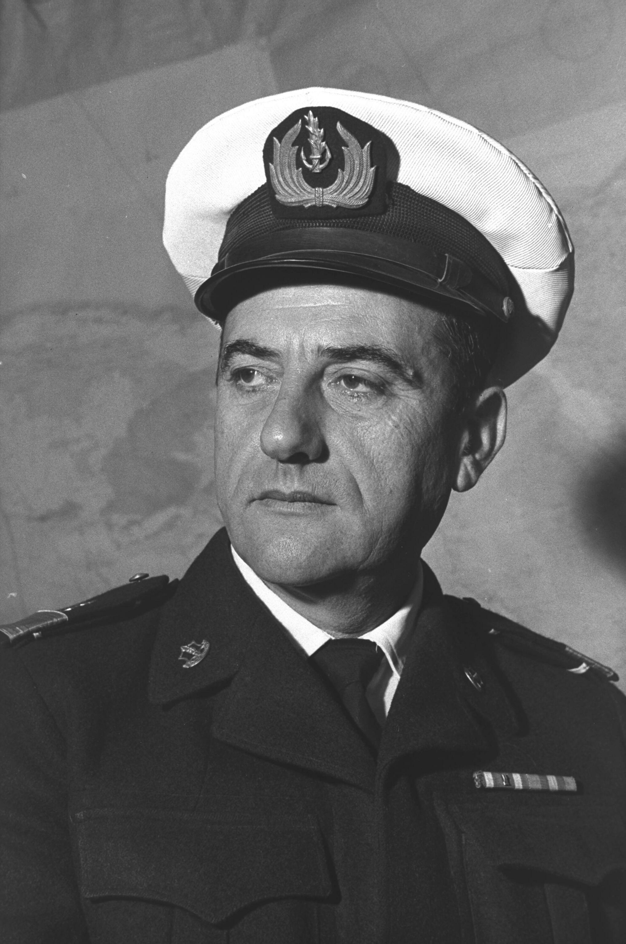 ALUF SHMUEL TANKUS,HEADMASTER OF THE ACRE NAUTICAL SCHOOL, FOR SIX YEARS COMMANDER OF THE ISRAEL NAVY